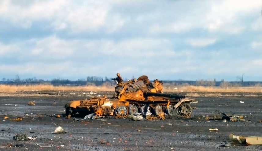 Busted tank at Donetsk Sergey Prokofiev International Airport, December 24, 2014.